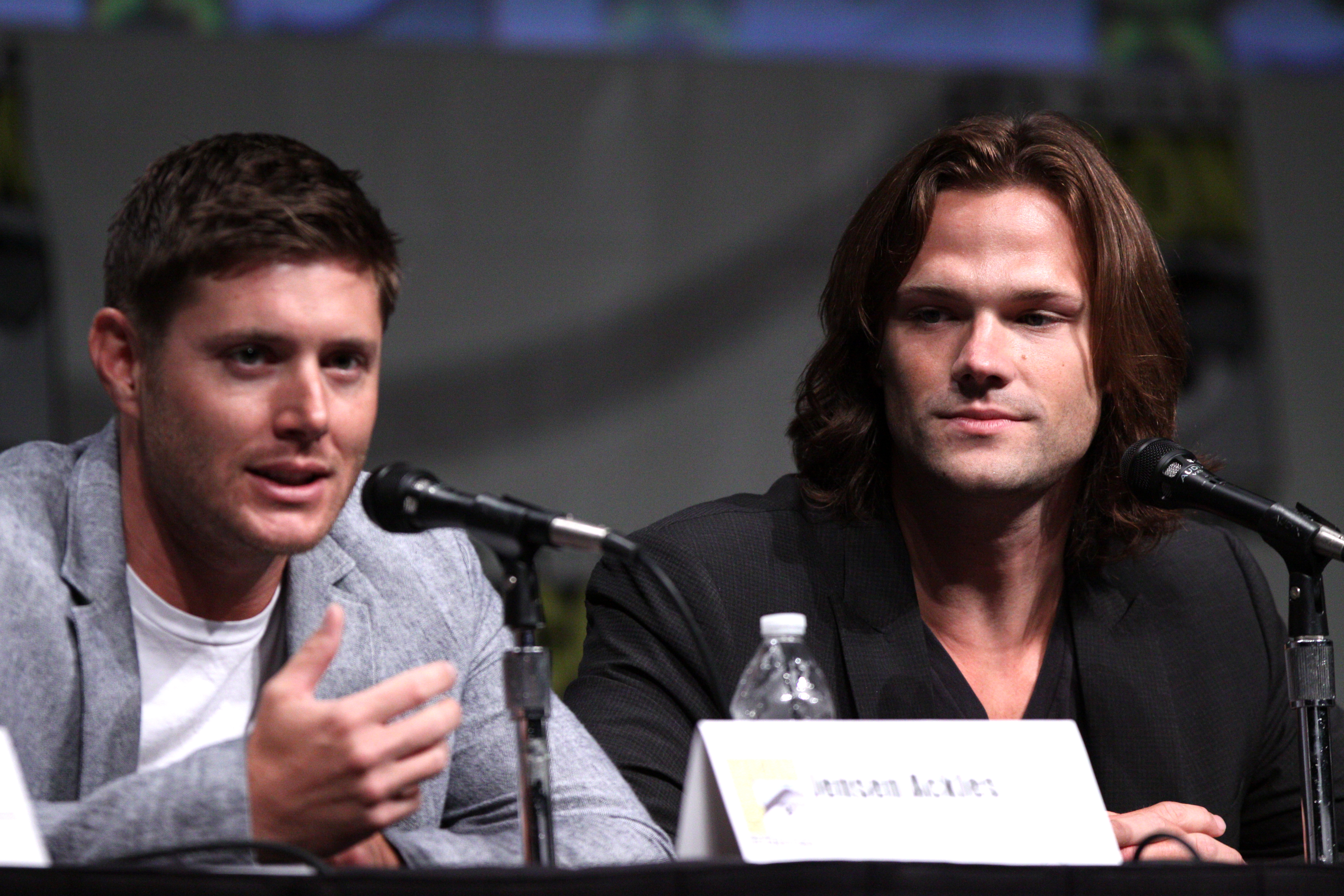 Jensen Ackles & Jared Padalecki speaking at the 2012 San Diego Comic-Con International in San Diego, California.